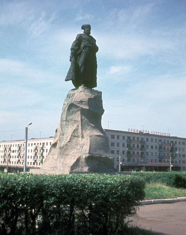 Monument in Khabarovsk (Russia) on 9 Jul 1974. Picture taken and uploaded by Roger McLassus.